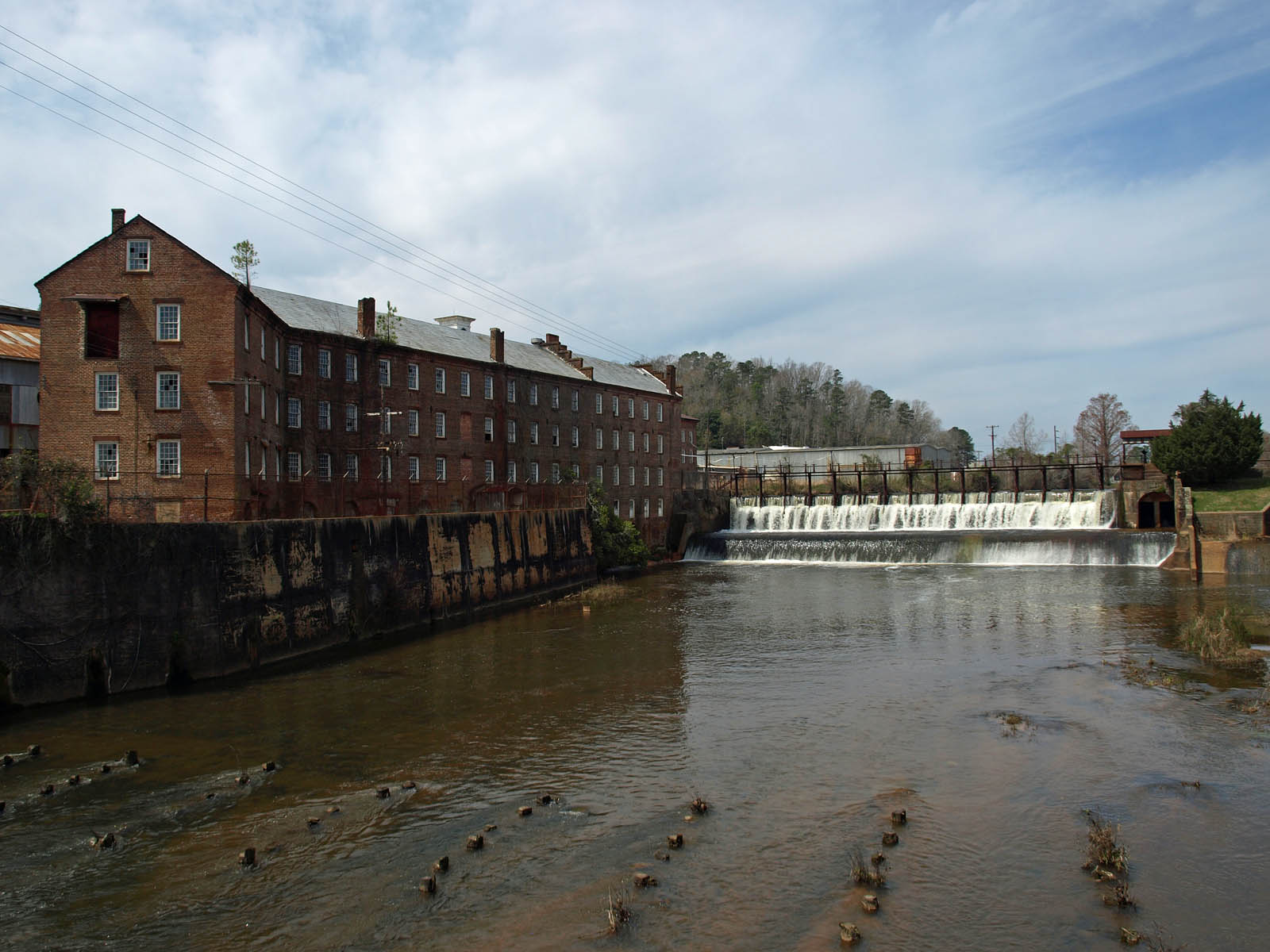 The Daniel Pratt Gin Manufacturing Company on Autauga Creek in Prattville, Alabama.